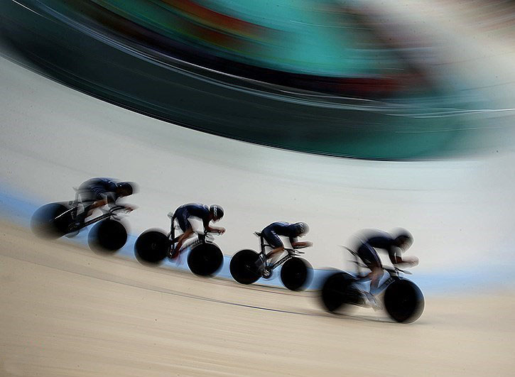 New Zealand men's team pursuit at the 2016 Summer Olympic